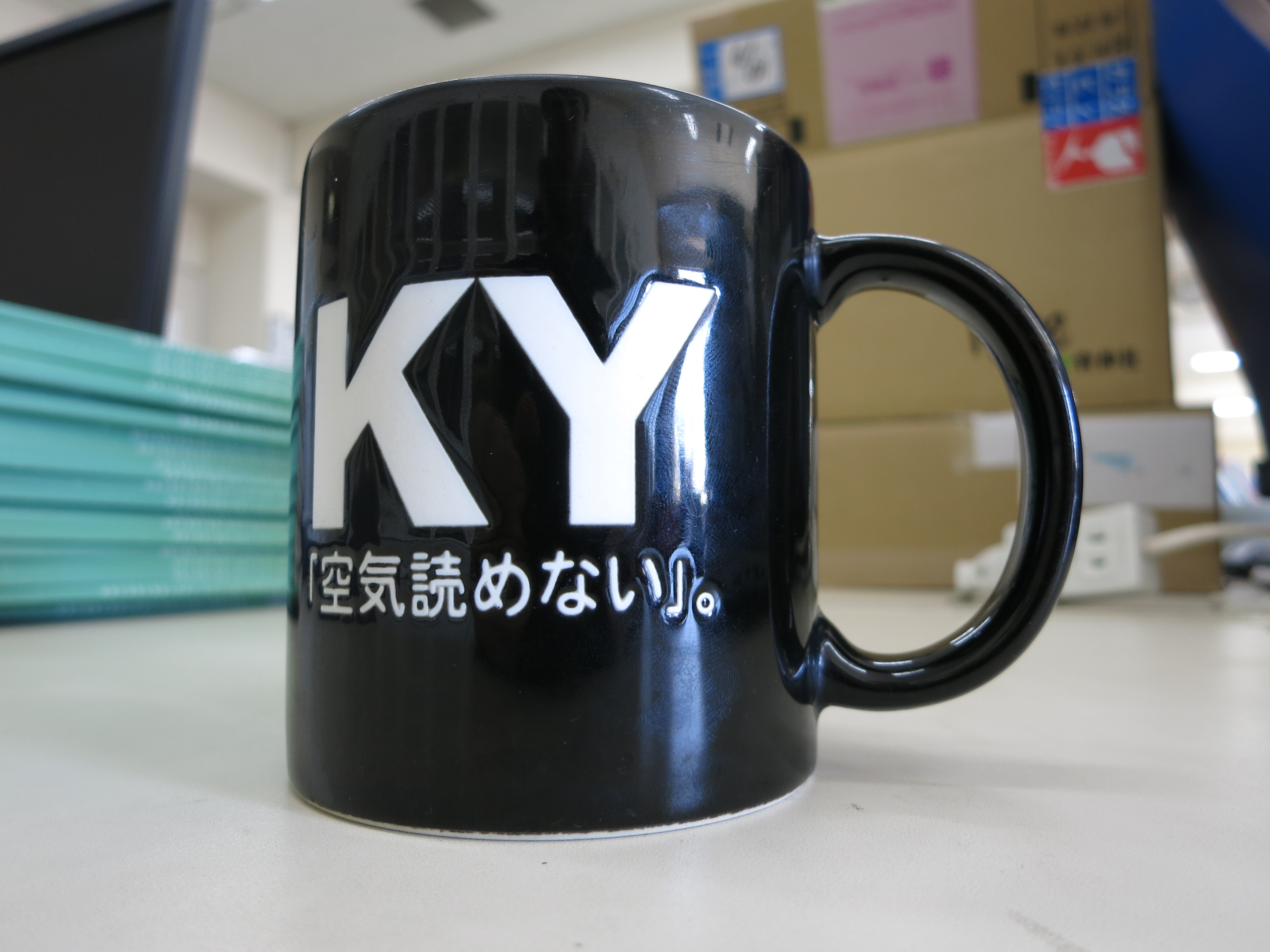 A black coffee cup with the text "KY" in large print. Below it is printed the Japanese, "「空気読めない」。".